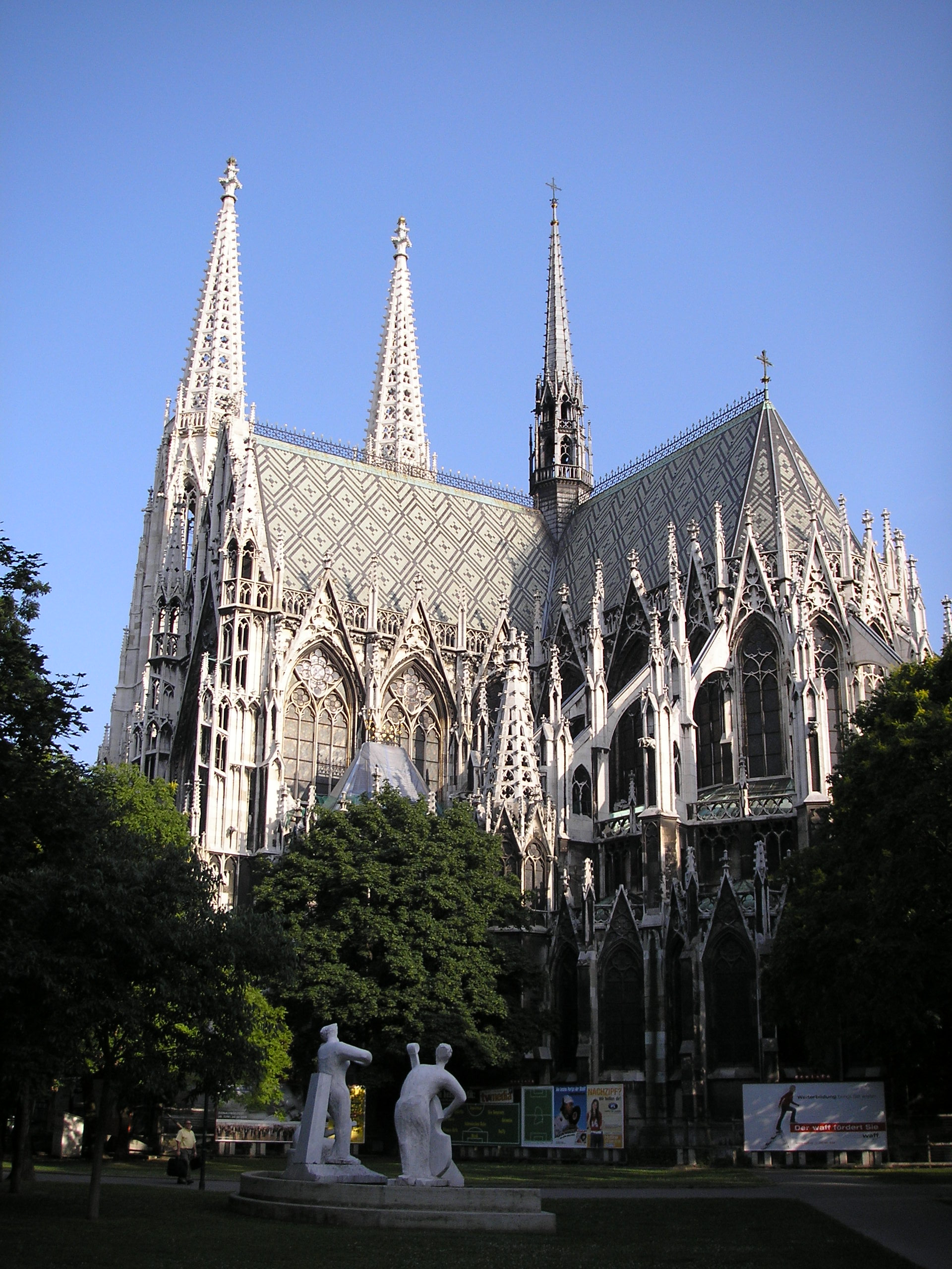 The Votivkirche in Vienna, built in the Neo-gothic style at the end of the 19th century in thanksgiving to the miraculous survival of emperor Franz Joseph I of Austria during an assasination attempt.